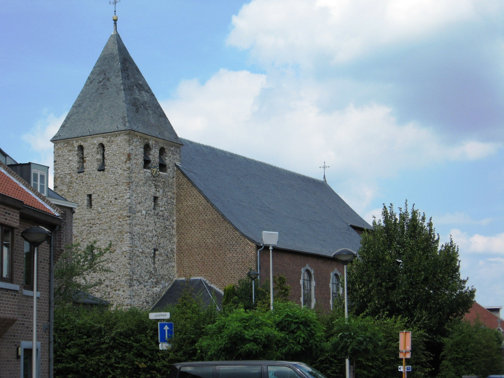 Church of Saint Agapetus in Vliermaal, Kortessem, Limburg, Belgium